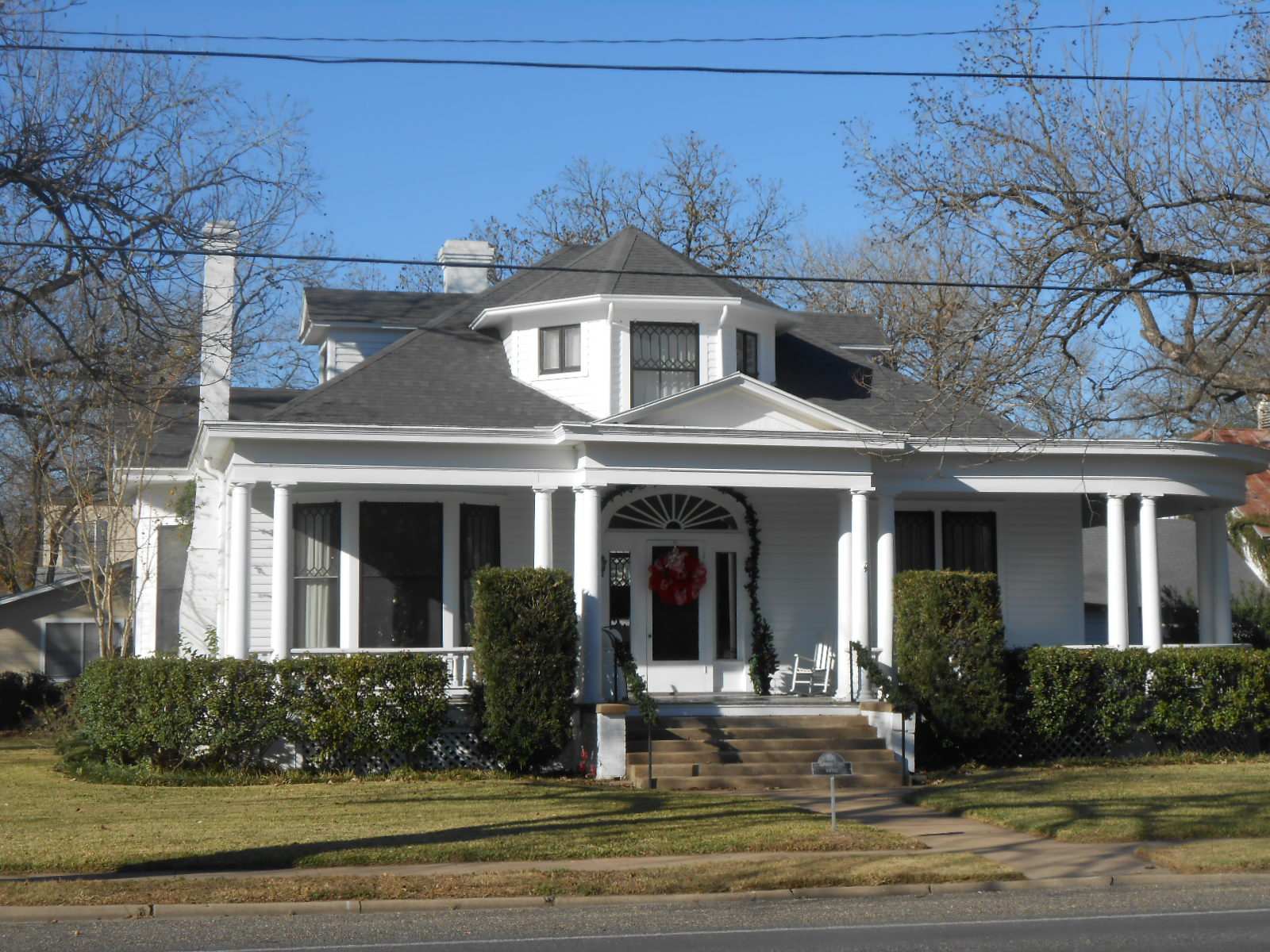 The Edward Lewis House at 605 St. Louis St., Gonzales, Texas displays the Greek Revival style applied to an early 20th century bungalow form.